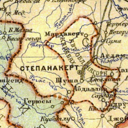 Map of NKAO within the borders of Azerbaijan SSR from the Atlas of 1928